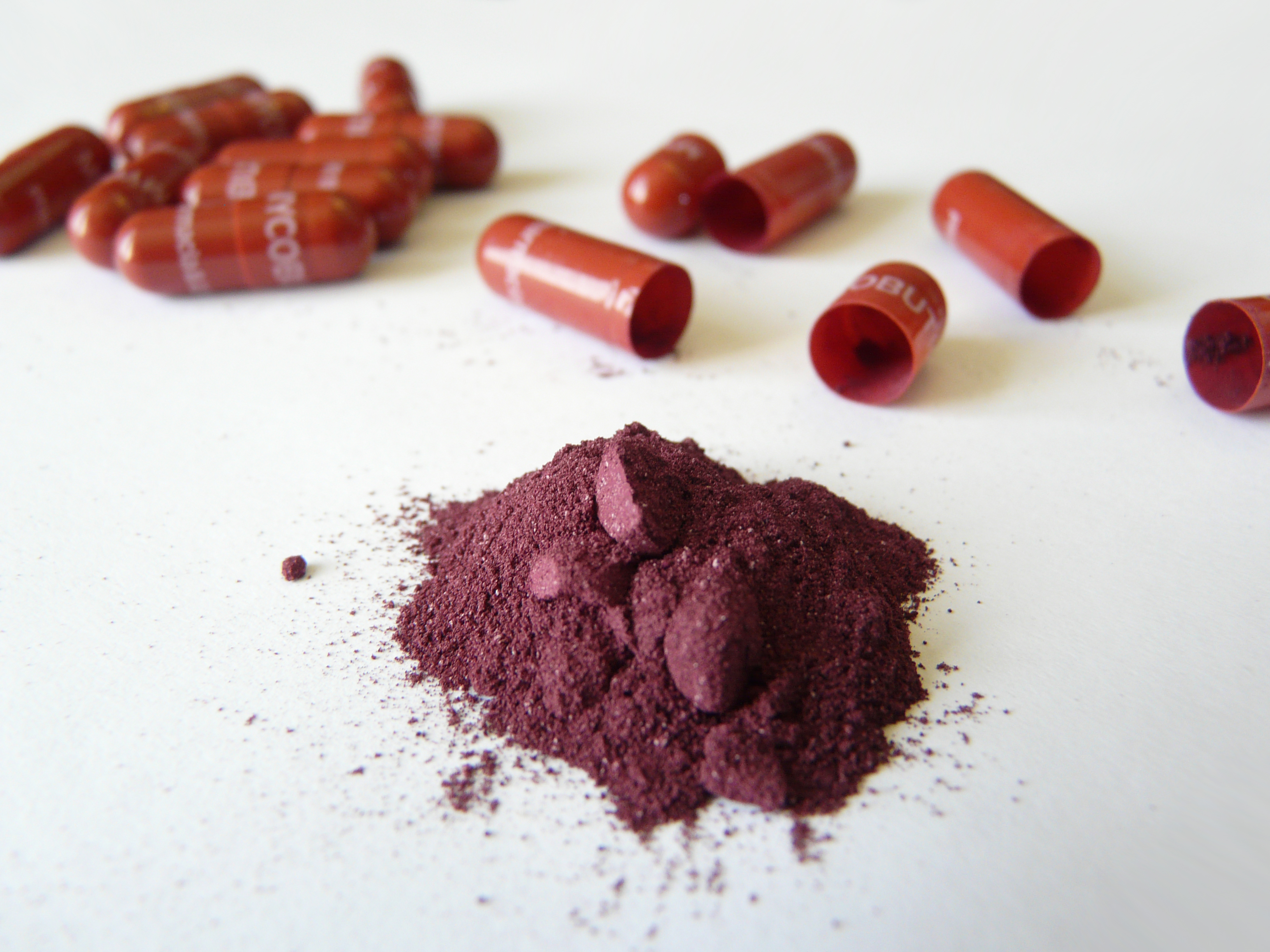 Capsules and powder of rifabutin (Mycobutin).